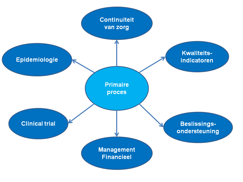 Purposes of Detailed Clinical Models